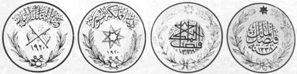 An old coin of the former syrian kingdom